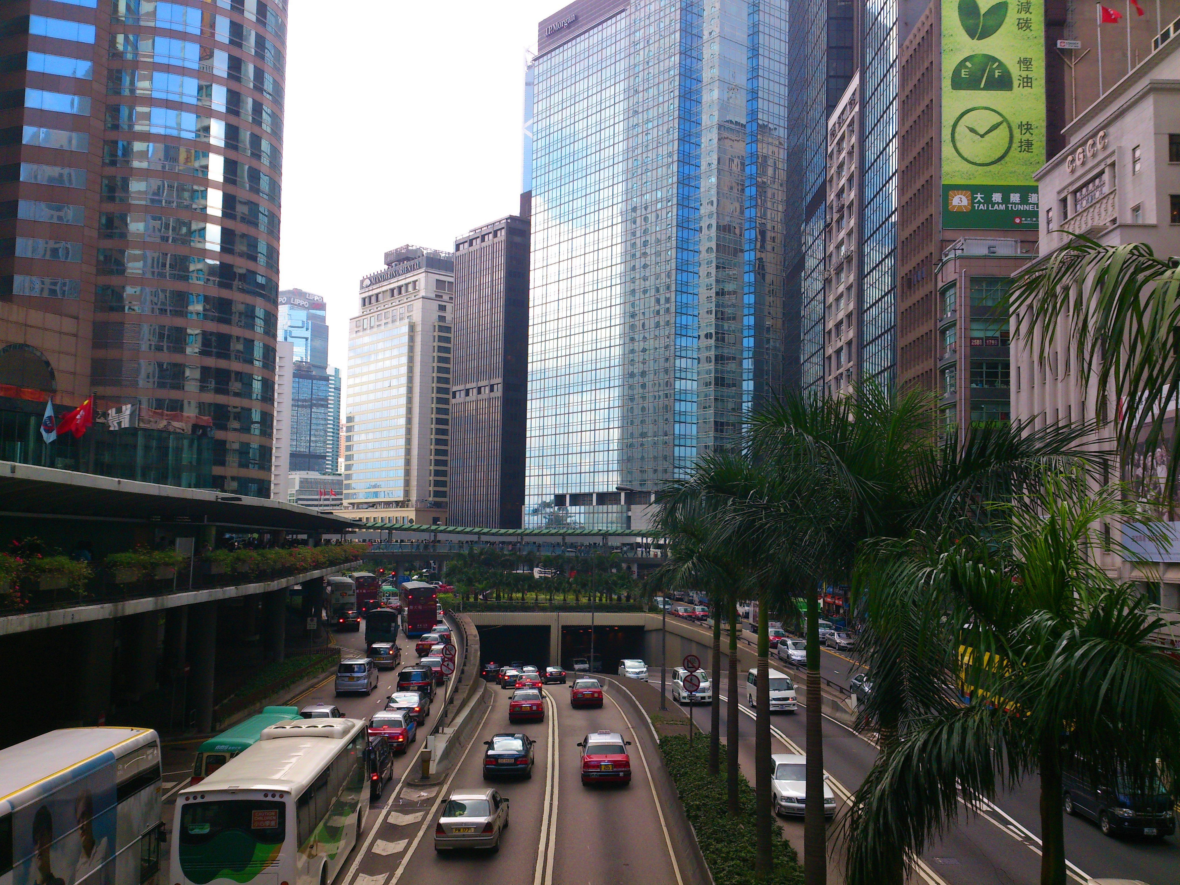 Connaught Road Central near Pedder Street Tunnel West End